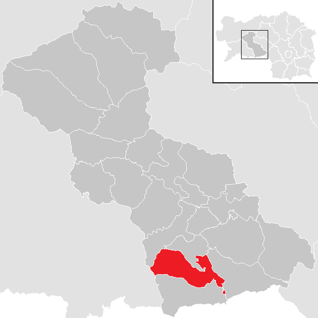 district Judenburg in Styria, Austria